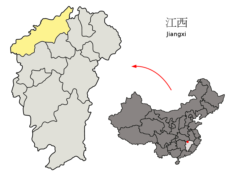 Location of Jiujiang Prefecture (yellow) within Jiangxi Province of China Map drawn in december 2007 using various sources, mainly : Jiangxi Province administrative regions GIS data: 1:1M, County level, 1990 Jiangxi Counties map from